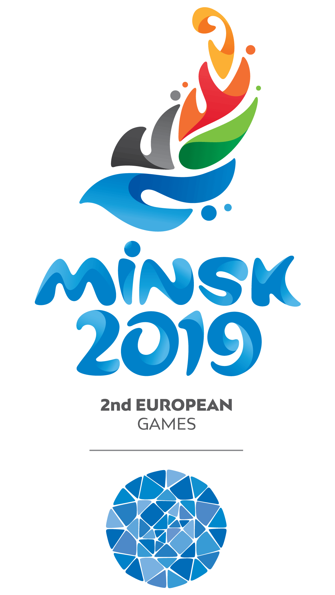 The 2nd European Games Minsk 2019